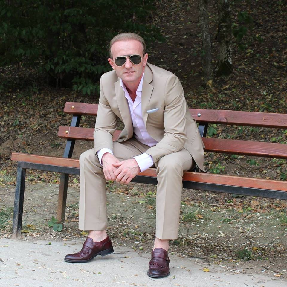 Bekim Bejta